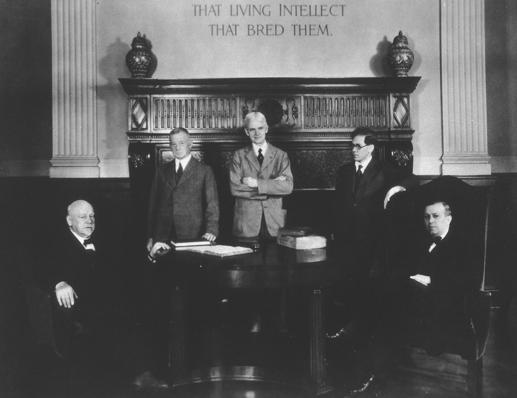 Staff of the Institute of the History of Medicine, Welch Memorial Library, Johns Hopkins University; Seated: William Henry Welch and Henry E. Sigerist; Standing: Fielding H. Garrison, John Rathbone Oliver, and Owsei Temkin. Photo, ca. 1932.